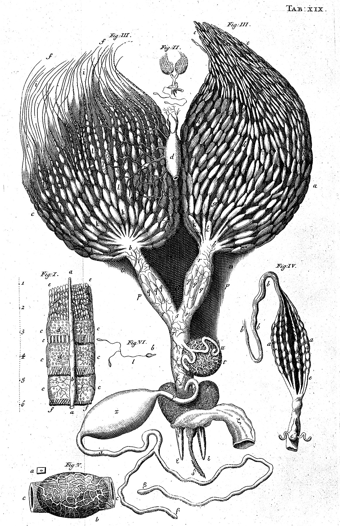 Reproductive organs of the bee. Rare Books Keywords: Entomology; Jan Swammerdam